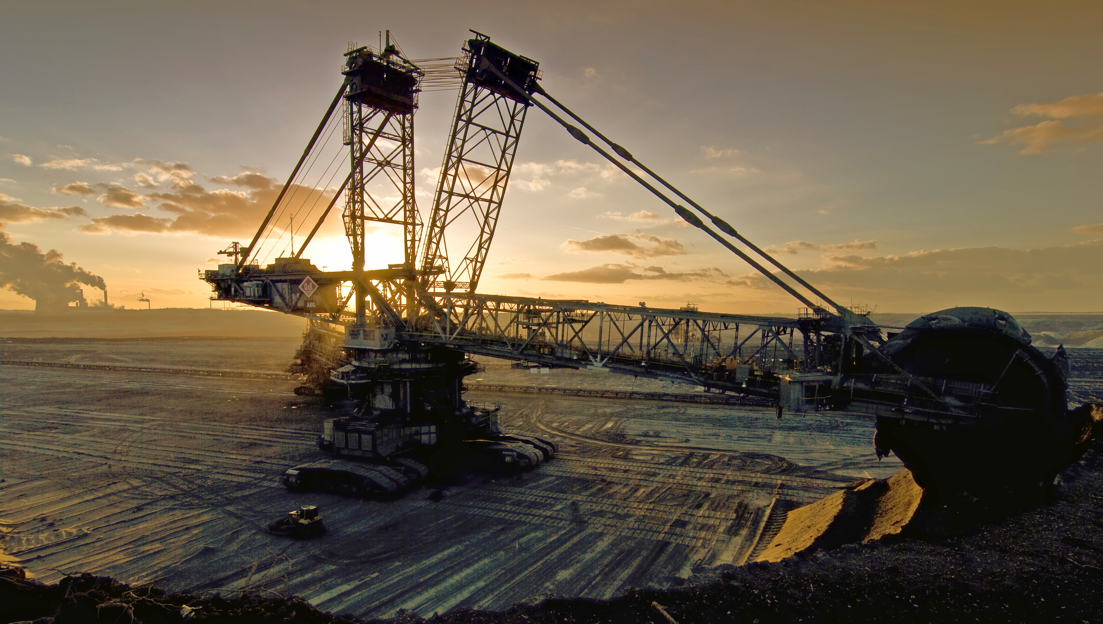 Bucket-wheel excavator 255 of Rheinbraun at work. In the background you can see the Tagebau Inden and the power plant in Eschweiler